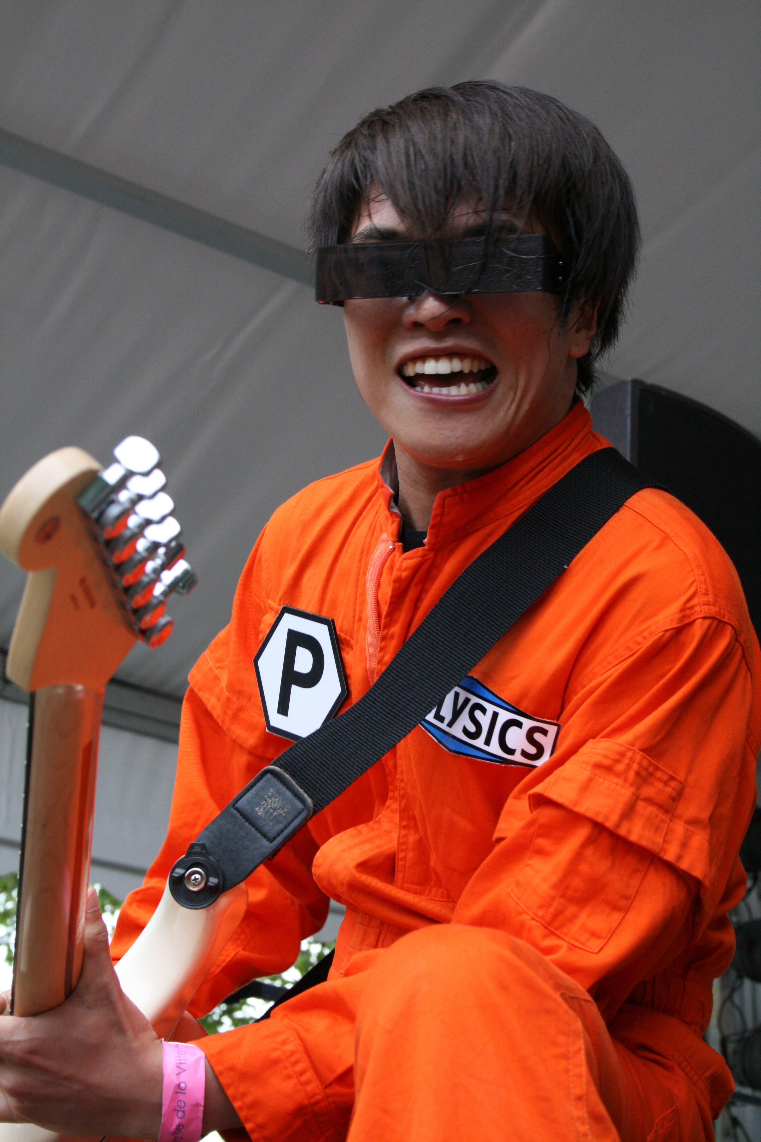 Hiroyuki Hayashi, lead singer of the band Polysics, during a concert in 2007 in Paris. I (User:Hervegirod) made this picture myself. The original is on my flickr home page, which states this image is my own work